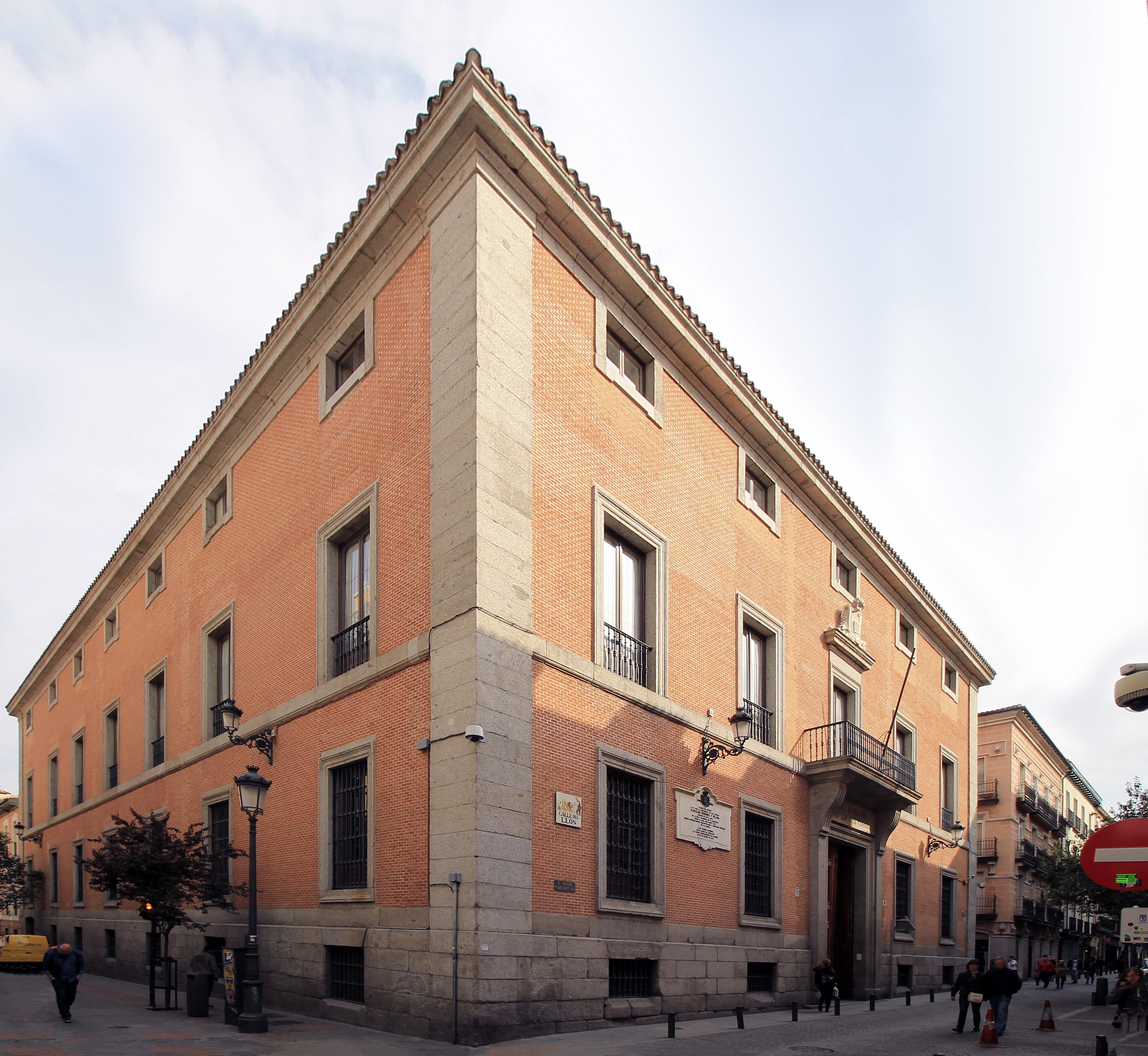 Former Nuevo Rezado in Madrid, home of the Spanish Royal Academy of History.